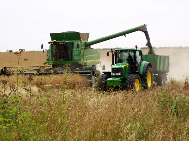 Barton Stacey - Harvesting. John Deere combine and John Deere tractor in perfect harmony.